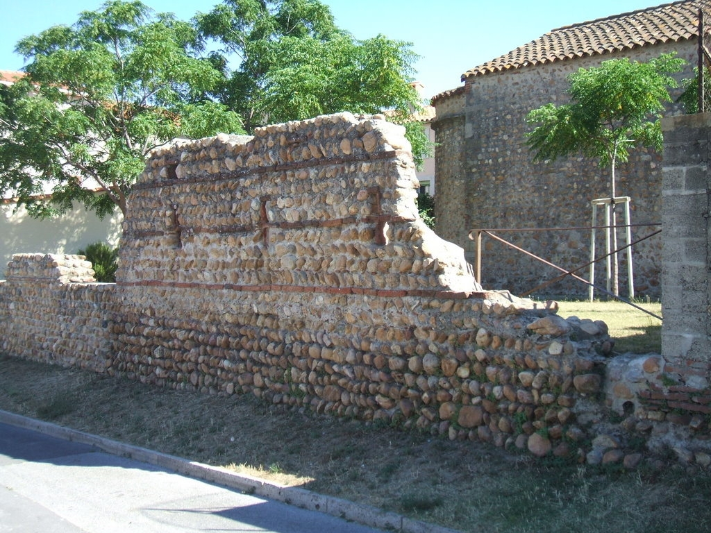 Saleilles, Pyrénées-Orientales, Languedoc-Roussillon, France: remains of a fortification wall north of the Saint-Etienne chapel (XIIIth century).